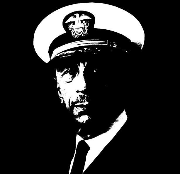 Rabbi Joshua L. Goldberg, the third rabbi to be commissioned as a chaplain in the U.S. Navy, the first to achieve the rank of Navy Captain, and the first to retire after a full active-duty military career.